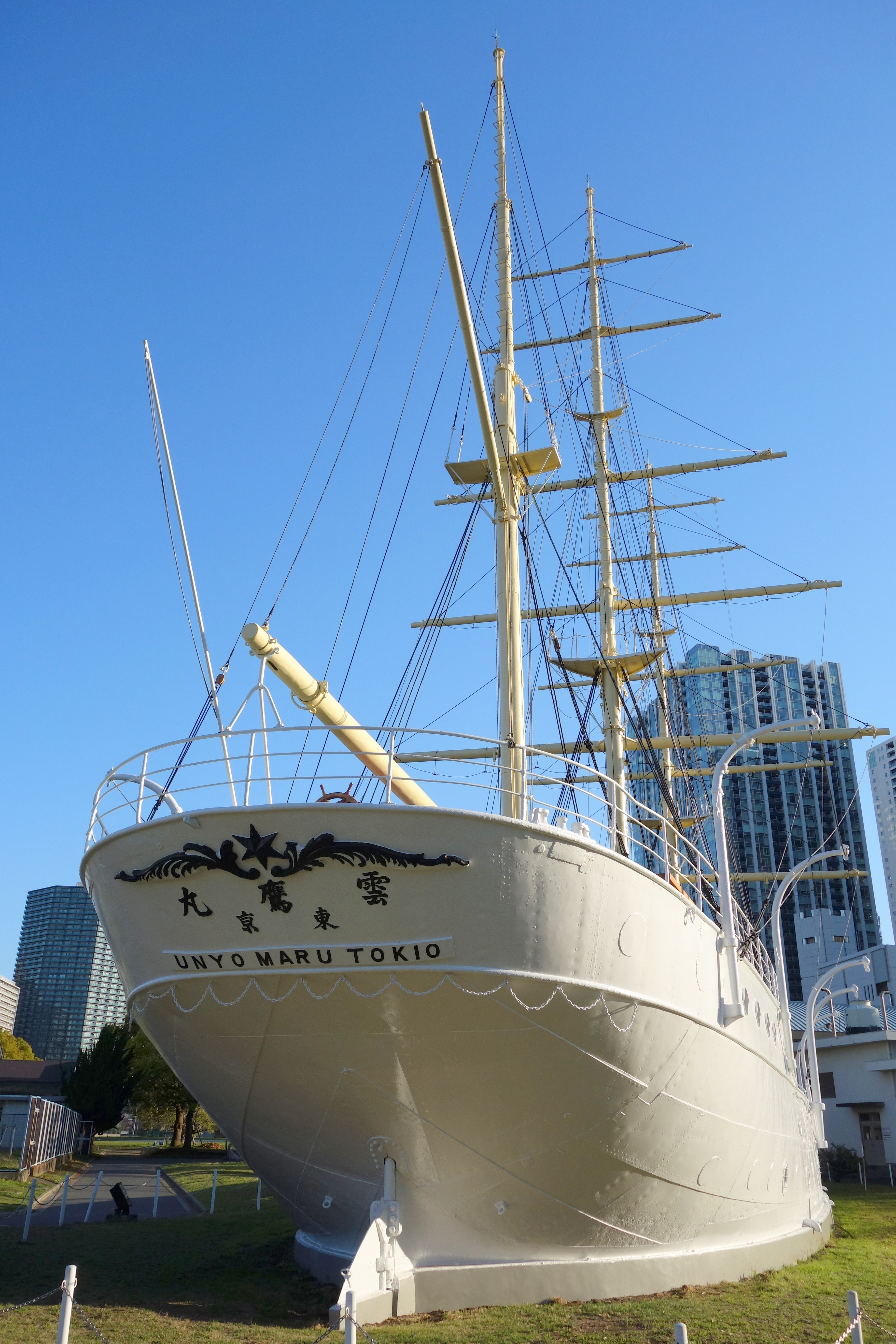 Unyo Maru (ship, 1909) - Tokyo University of Marine Science and Technology - Tokyo, Japan.